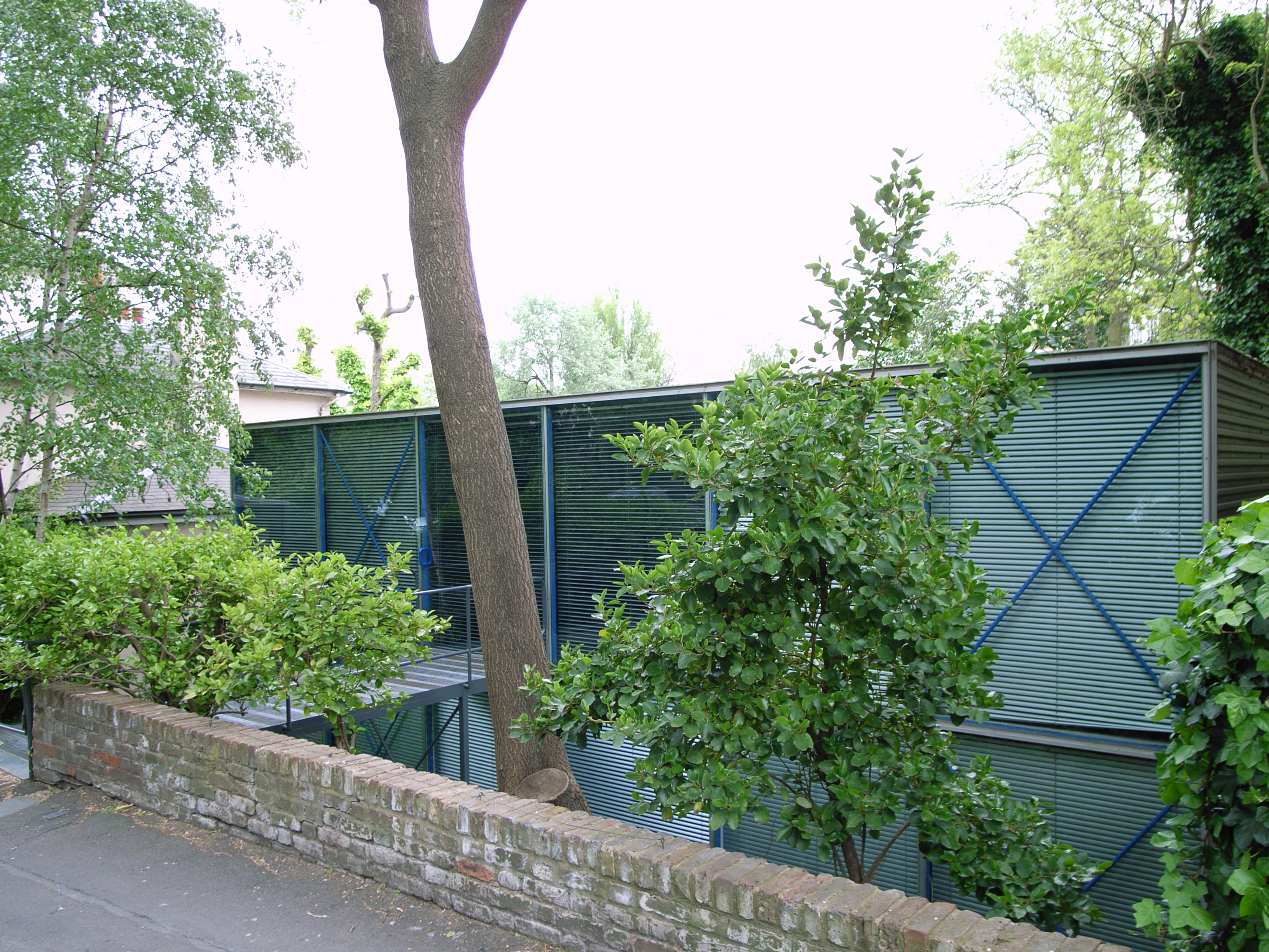 The Hopkins House in Hampstead, London (1976) by architects Michael Hopkins and Partners (Michael and Patricia Hopkins)